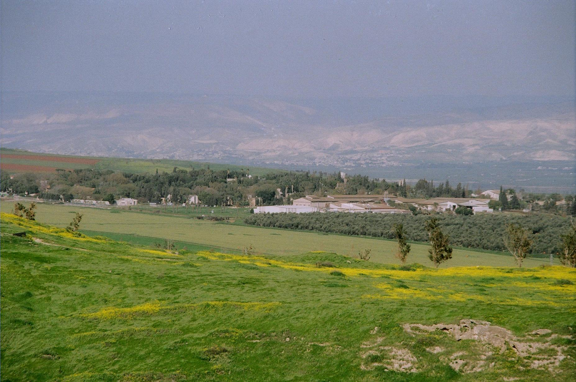 Hamadia, as seen from Tel Bet Shean